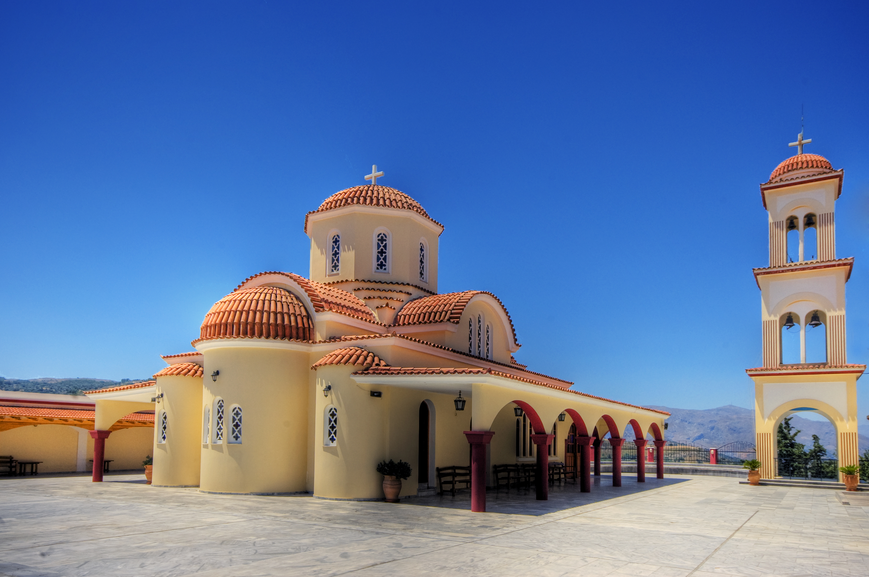 Church Pedros and Pavlos of Spili, Crete